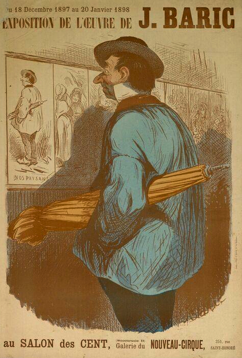 Zincography Poster of Exposition de l'oeuvre de Jules Baric au Salon des Cent, design Jules Baric and La Plume, Galerie du Nouveau Cirque, 18 décembre 1897 au 20 janvier 1898, Paris.